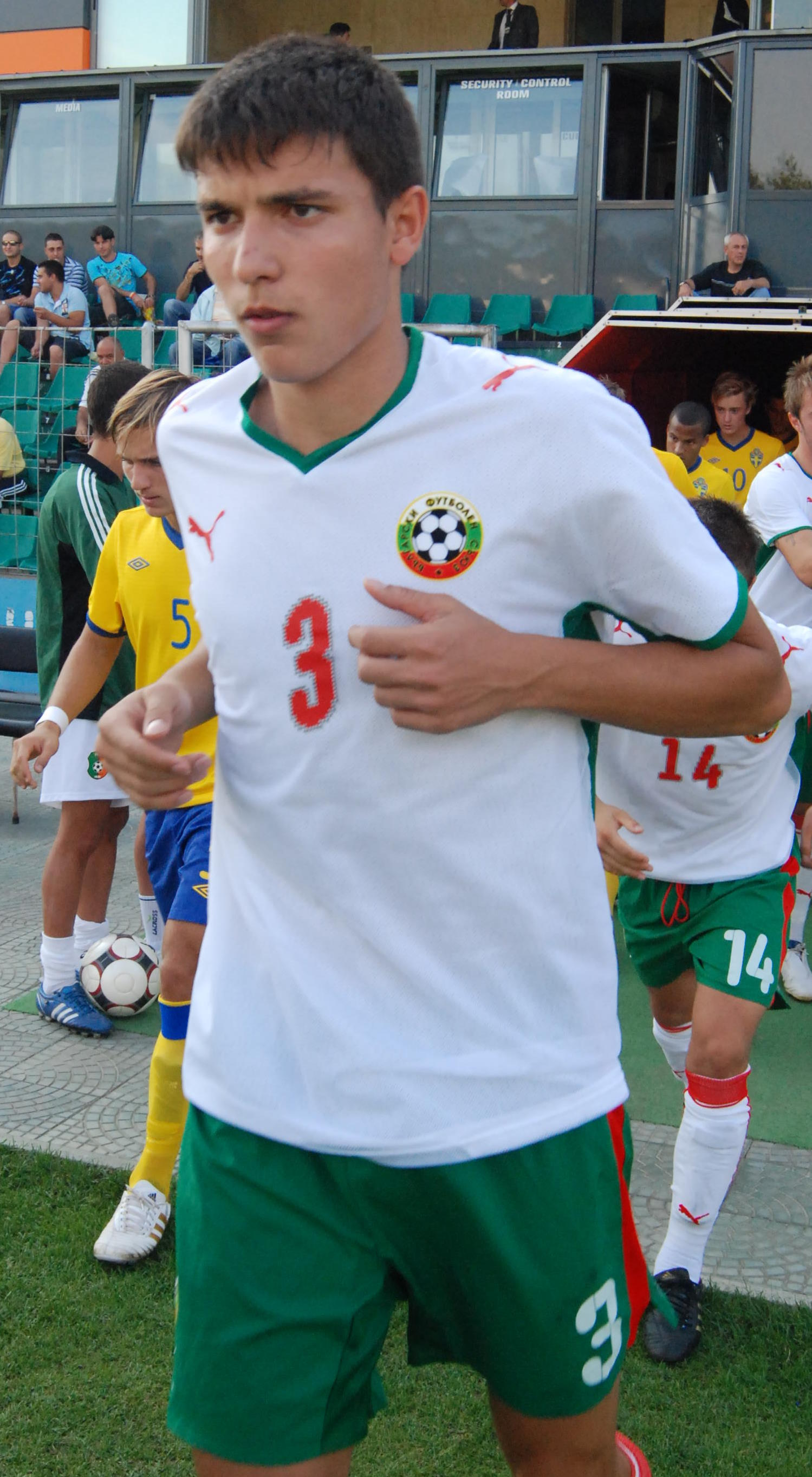 Iliya Milanov